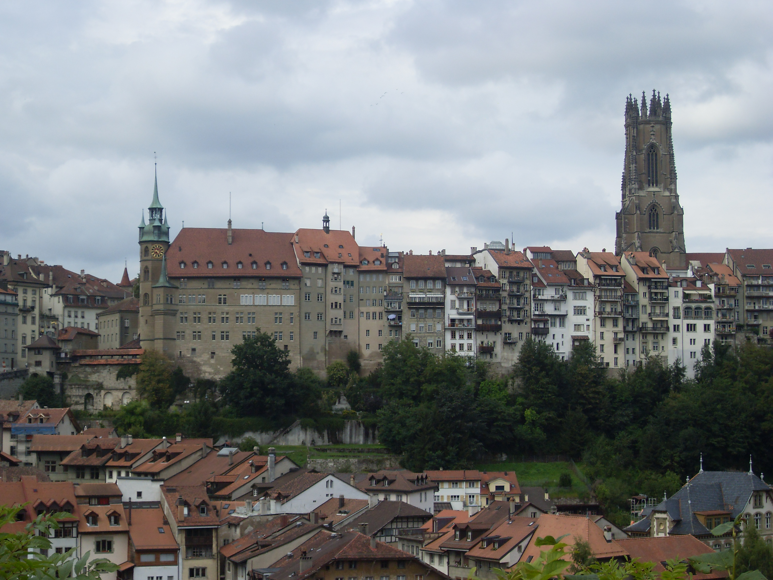 Fribourg (Switzerland).